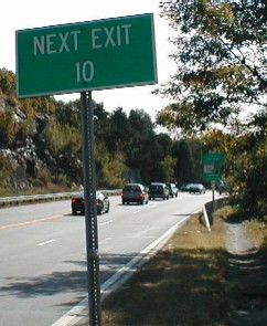 Route 128 north in Gloucester, Massachusetts, approaching "exit 10", the traffic light at Route 127. There are two rotaries behind; and north of that is exit 12, so one one of the rotaries has a number.